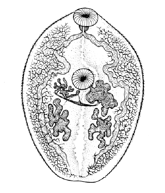 An adult specimen of Paragonimus westermanii.